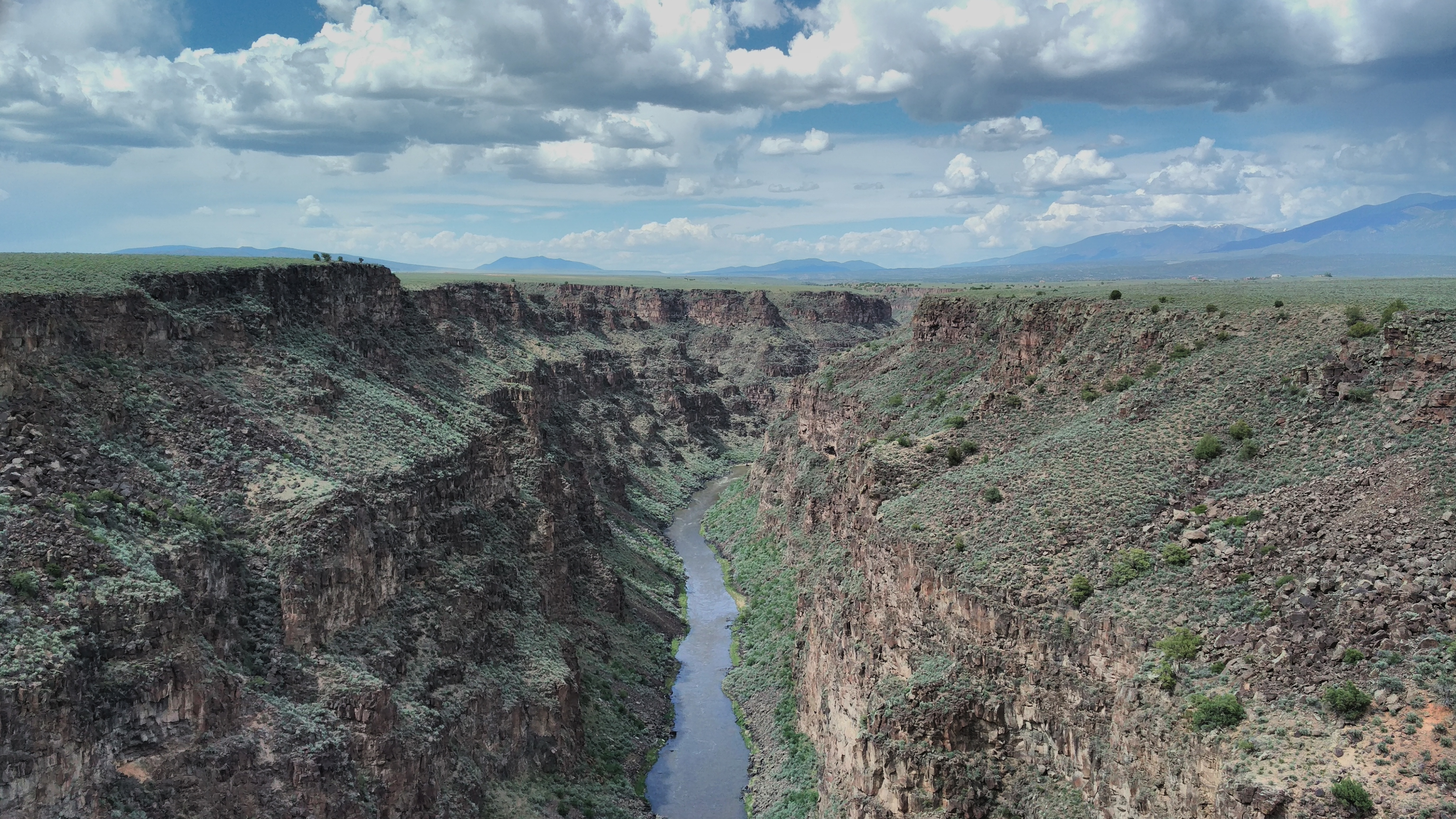 A view from the bridge towards the north